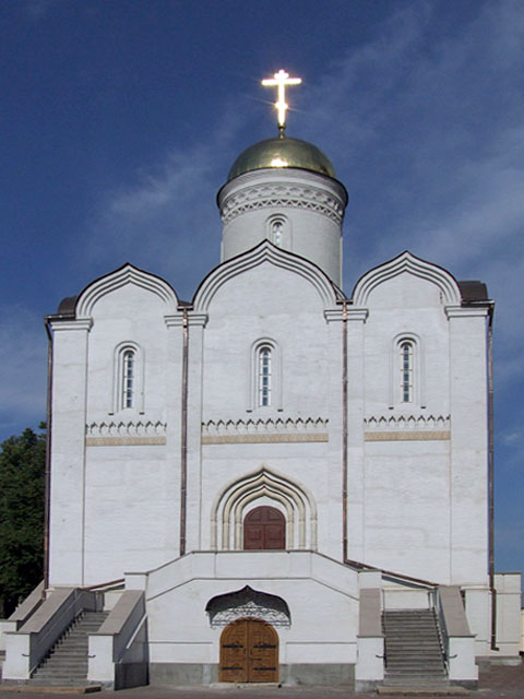 Nikolo-Ugresh monastery